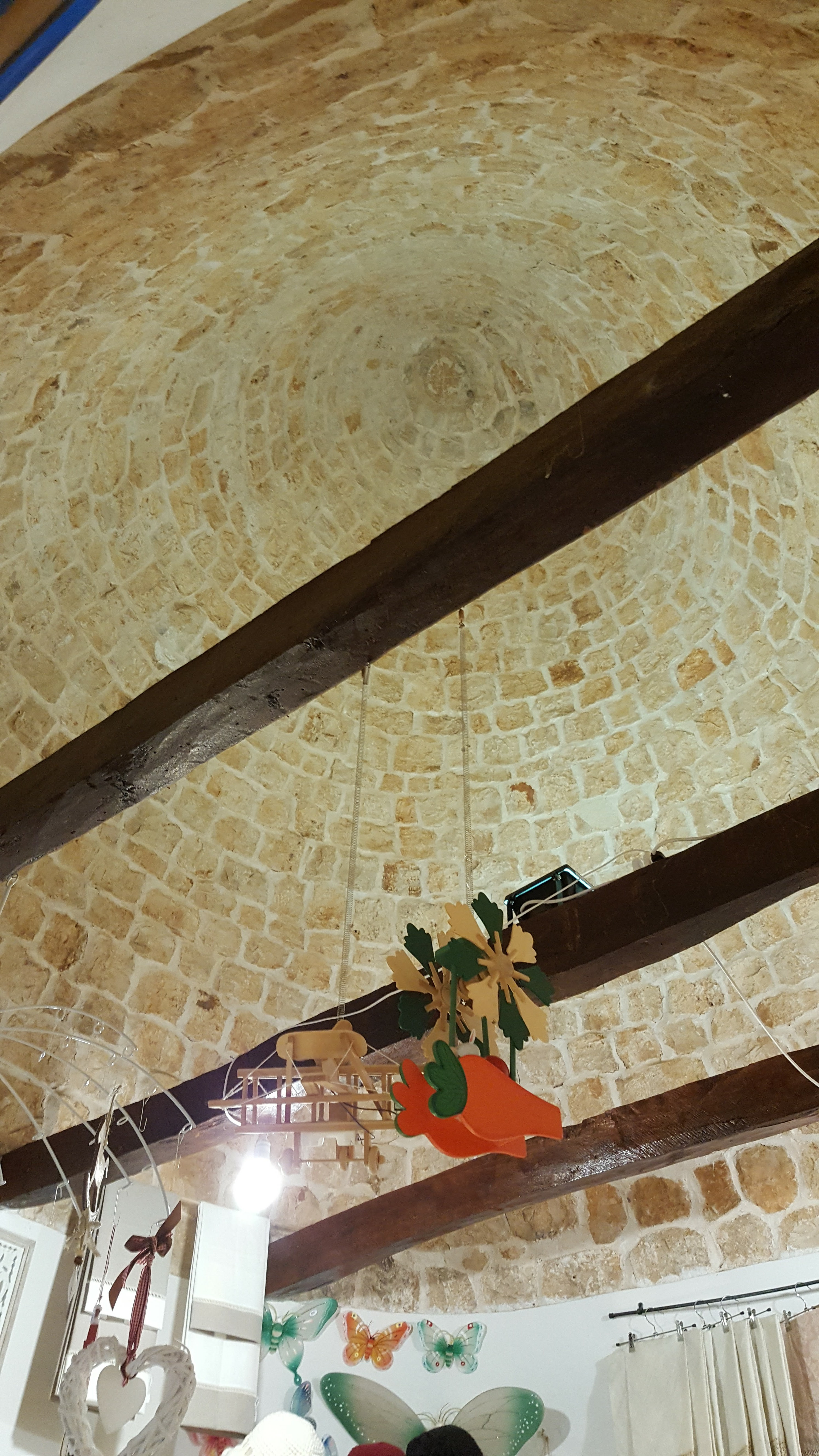 Trulli à Alberobello, Province of Bari, Italy